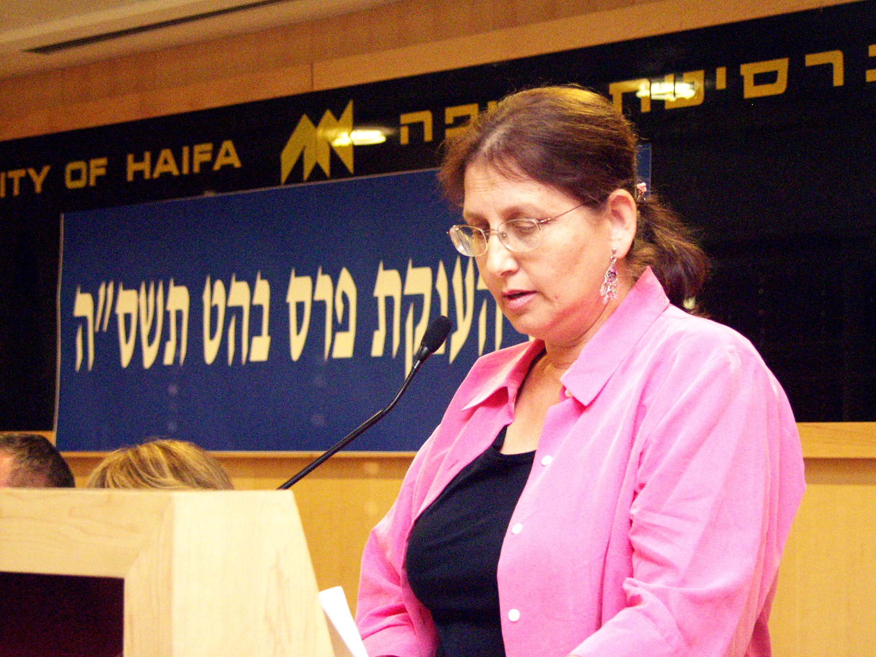 Prof. Tamar Sovran